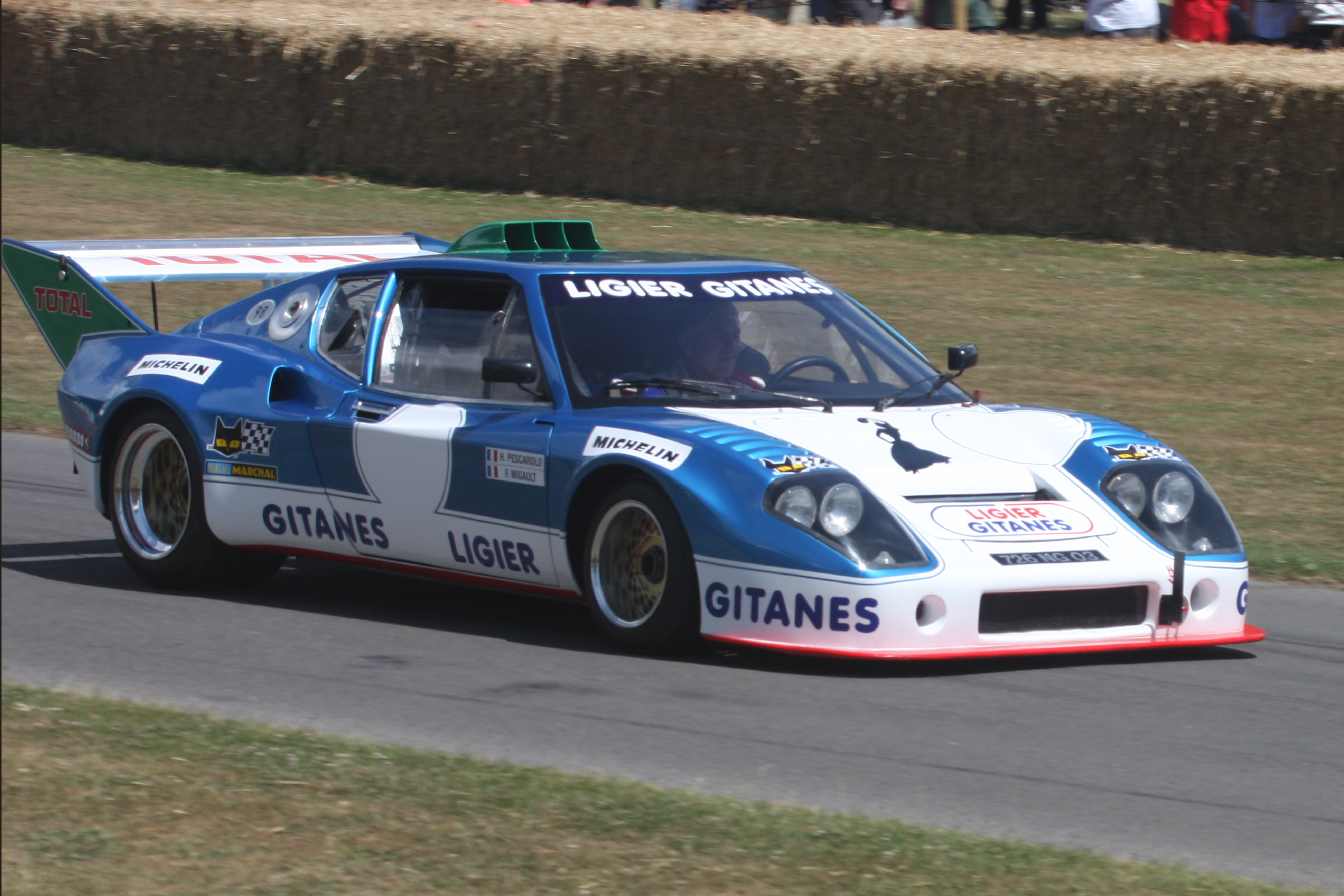 1975 Ligier JS2 Ford Cosworth DFV